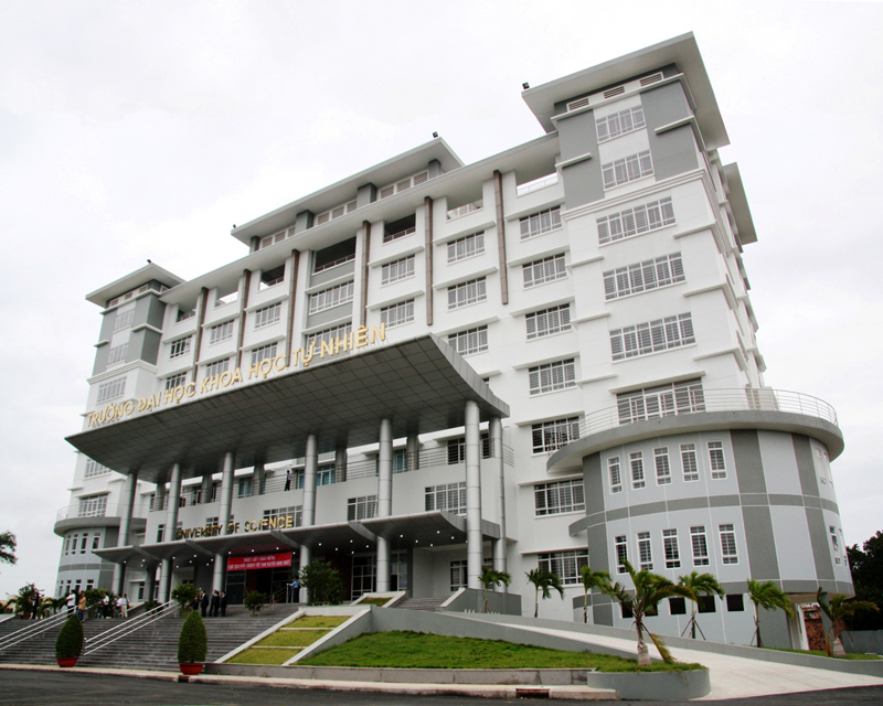 Nhà Điều hành